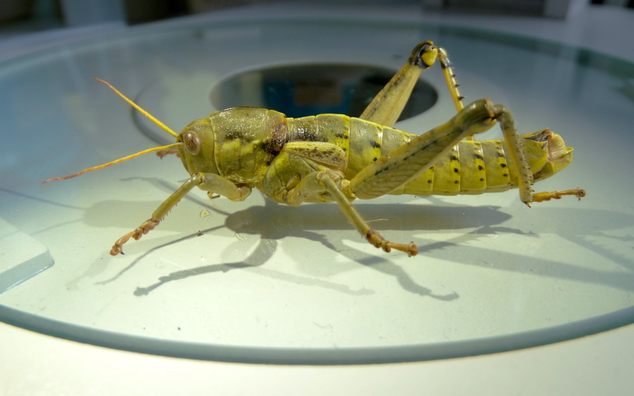 Male Paracinipe dolichocera photographed in the lab in Meknès, Morocco. The specimen was collected near Mrirt, Middle Atlas.